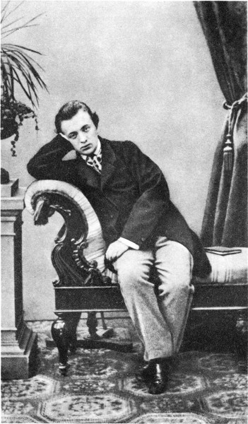 Aleksey Apukhtin c. 1860 photo